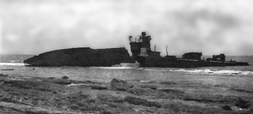 Downloaded from 8/9/2005 and converted to PNG by Jpbrenna